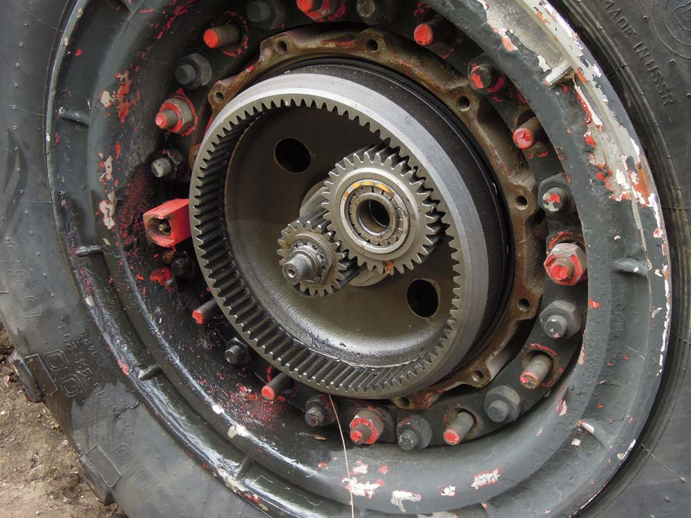 Wheel planetary reductor winhout carrier, with one pinion, MAZ-7310